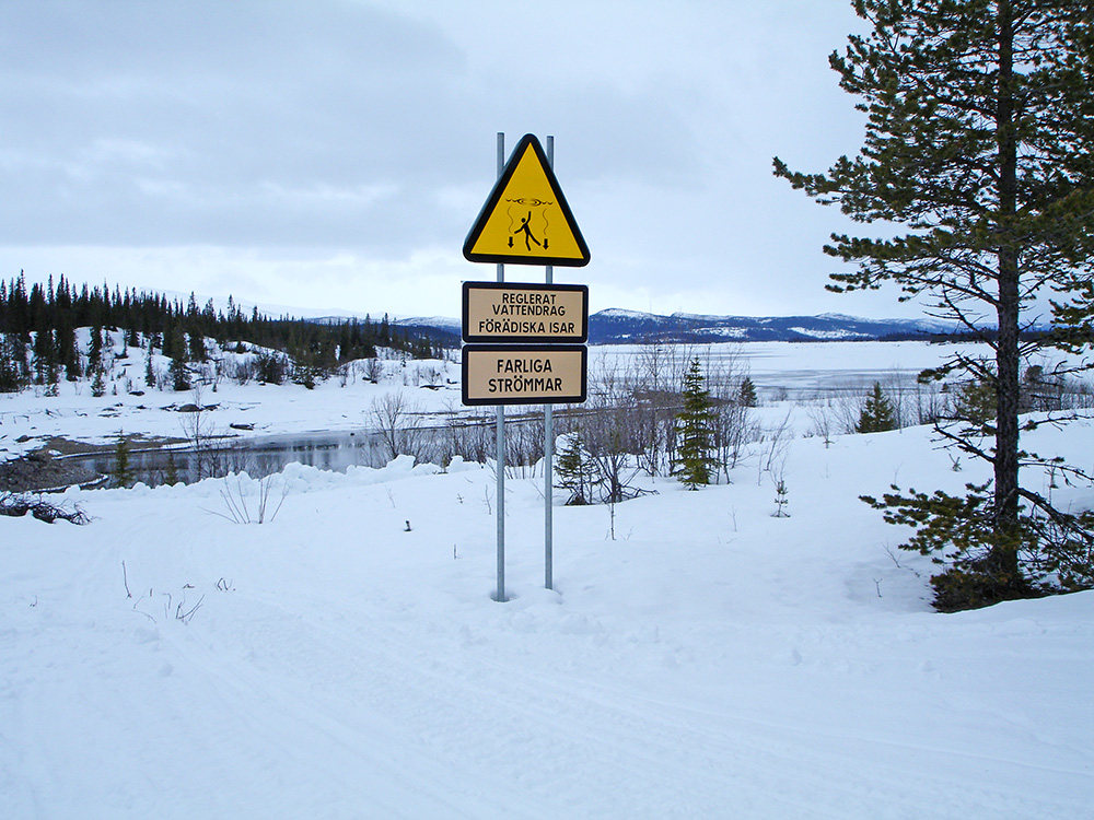 The outlet of lake Kultsjön, a water reserve for hydroelectric purposes. The signs says: "Regulated water course. Treacherous ice" and "Dangerous currents"